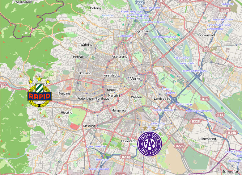 Map of Wien / Vienna showing the location of Bundesliga clubs SK Rapid Wien and FK Austria Wien